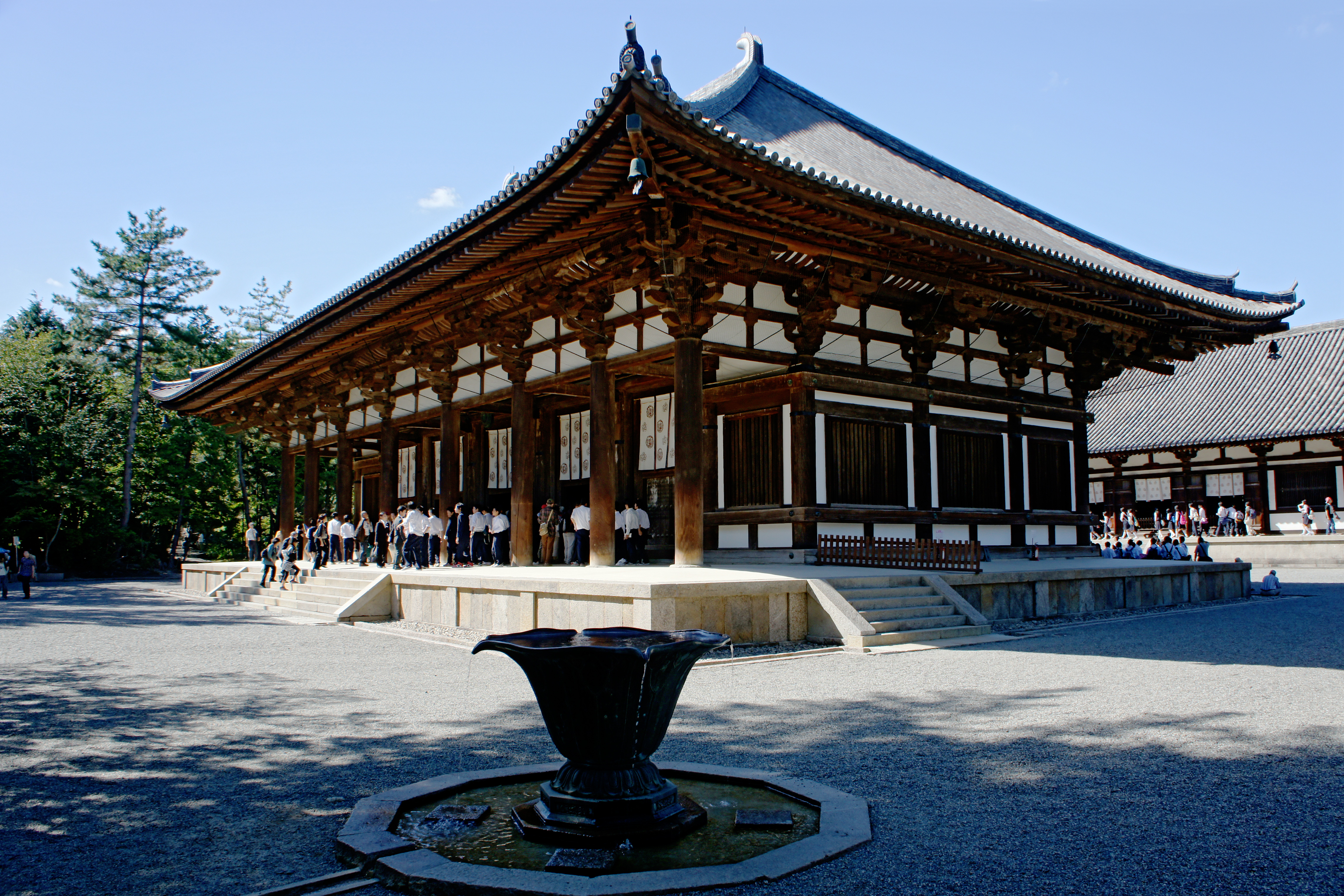 Tōshōdai-ji's Golden Hall is a Japan's National Treasure in Nara, Nara prefecture, Japan. It was built at the Nara period (AD 710 to 794).